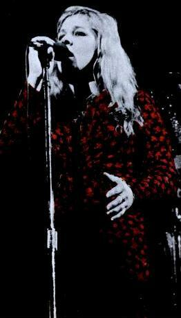 Trade ad for Fairport Convention's A Moveable Feast.To better adapt it to his respective Wikipedia article, the ad was cropped and cleaned in a graphics editing program. The original can be viewed at the source below.